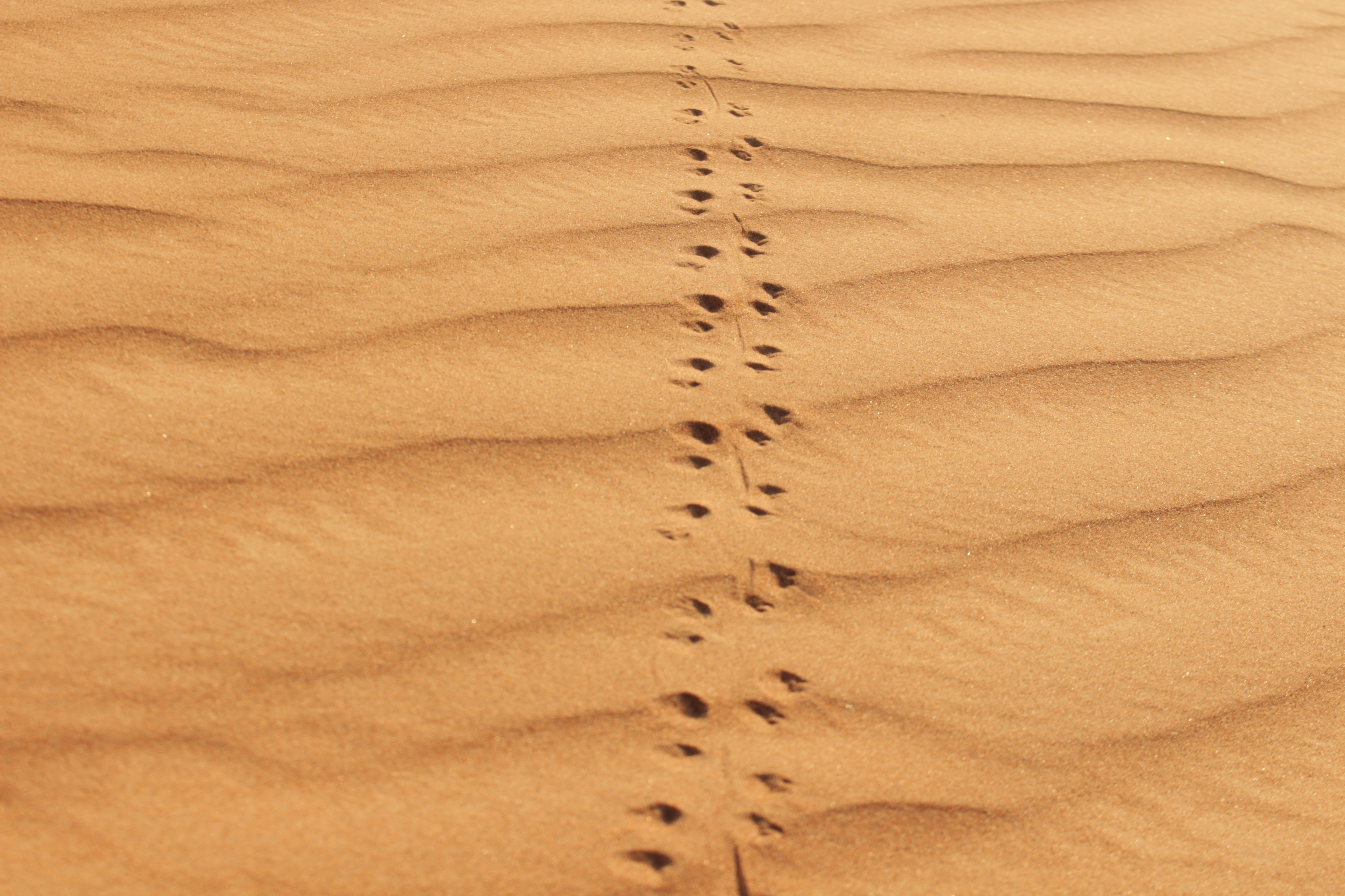 Footprints of animals in the desert